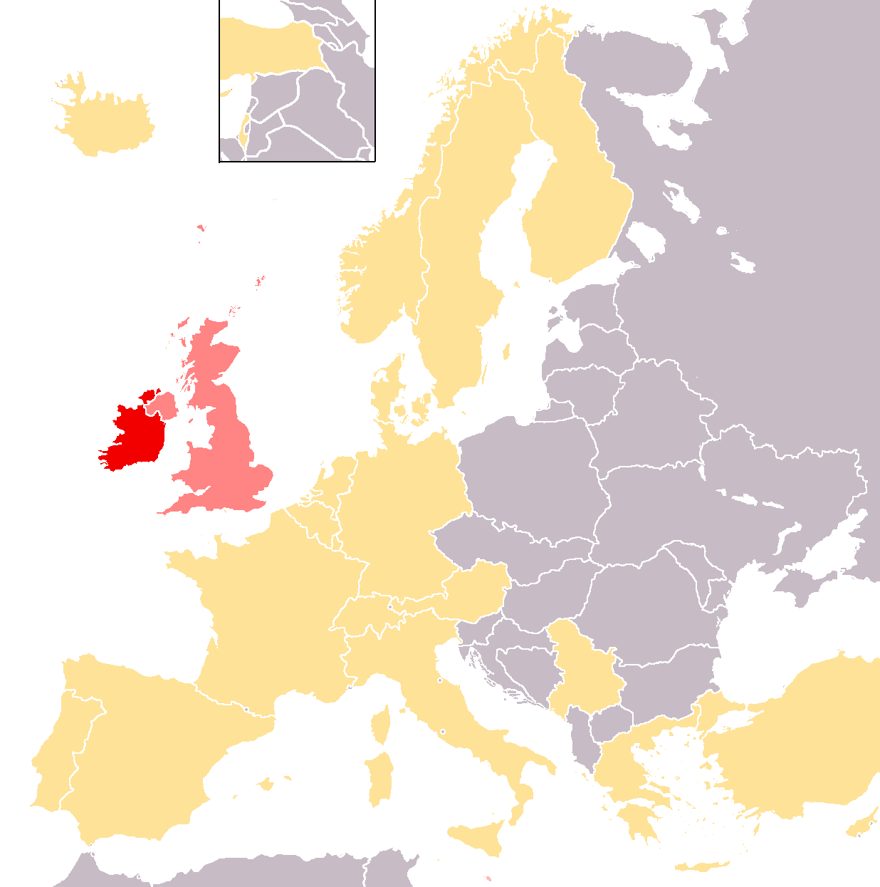 Map of Eurovision 1992